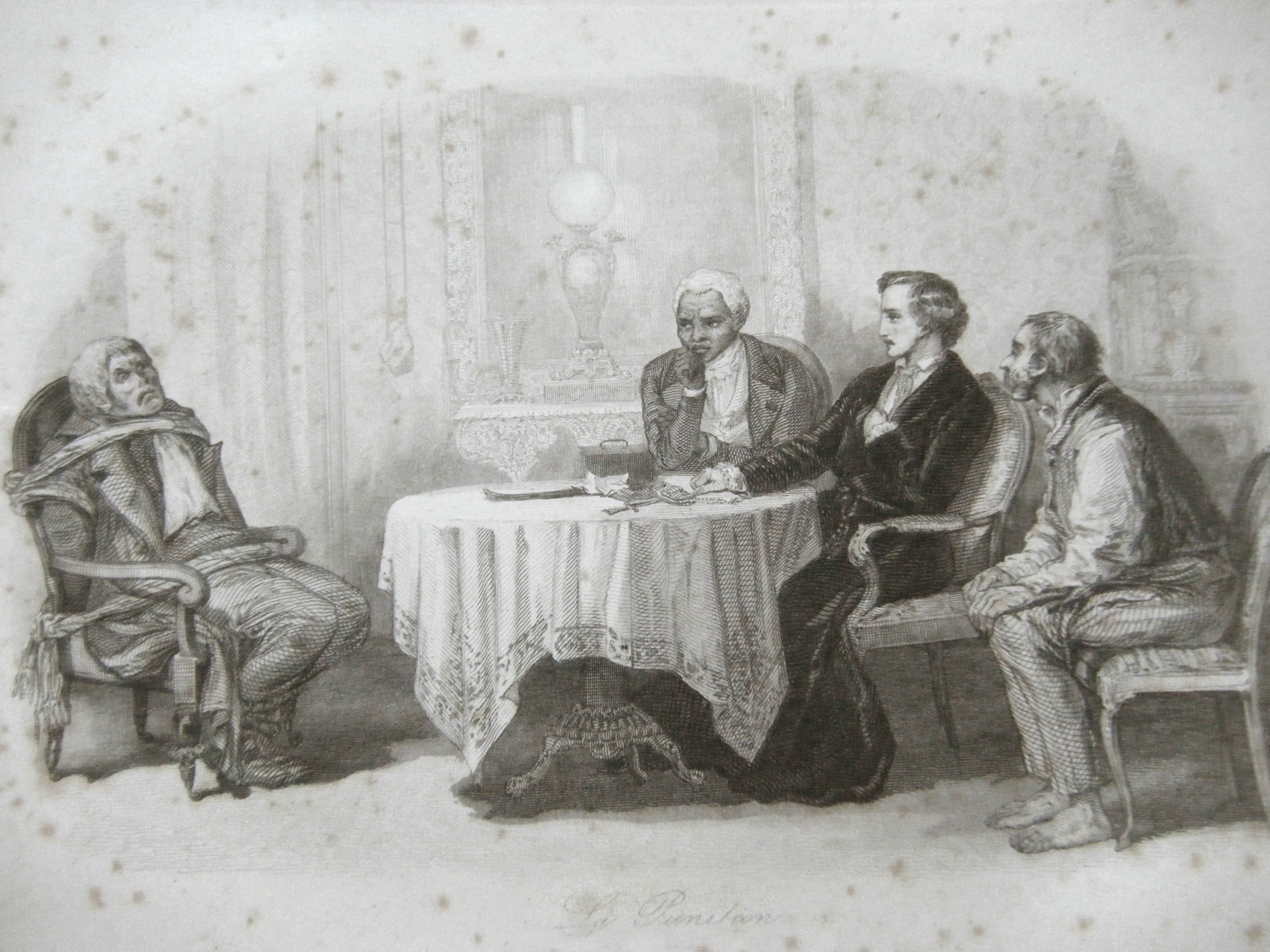 The punishement of a slave